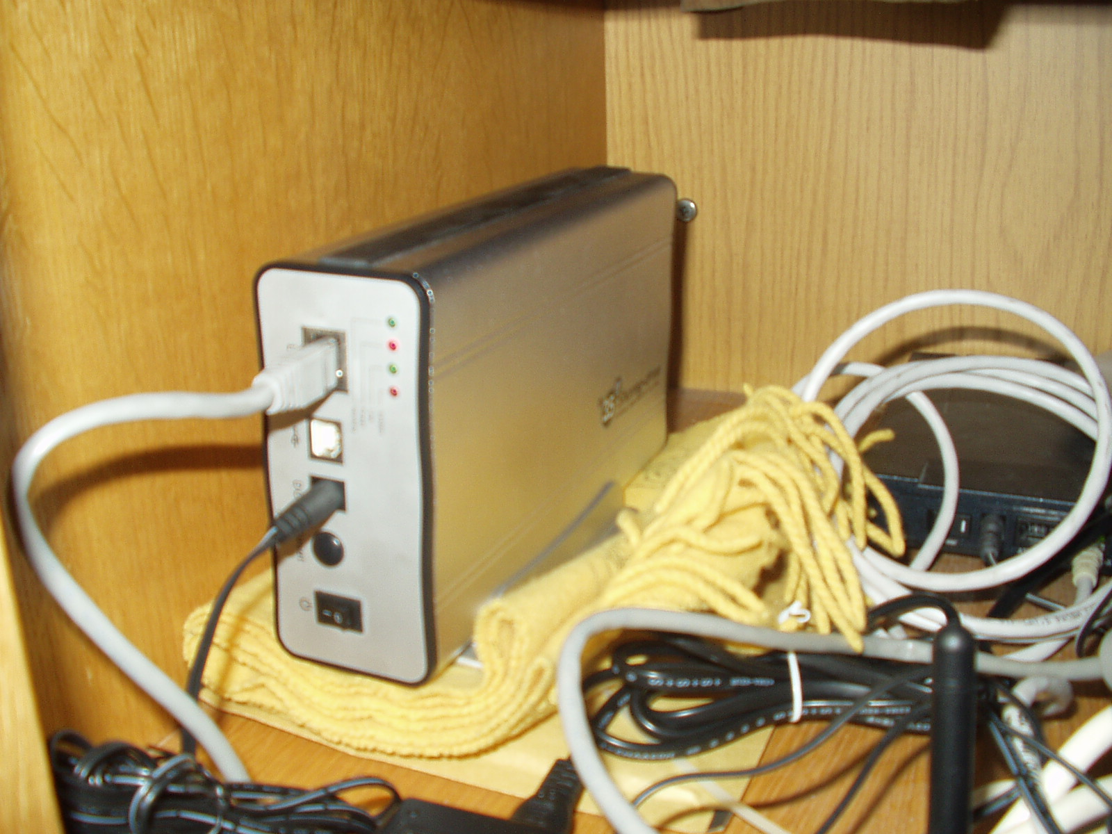 Network Attached Storage